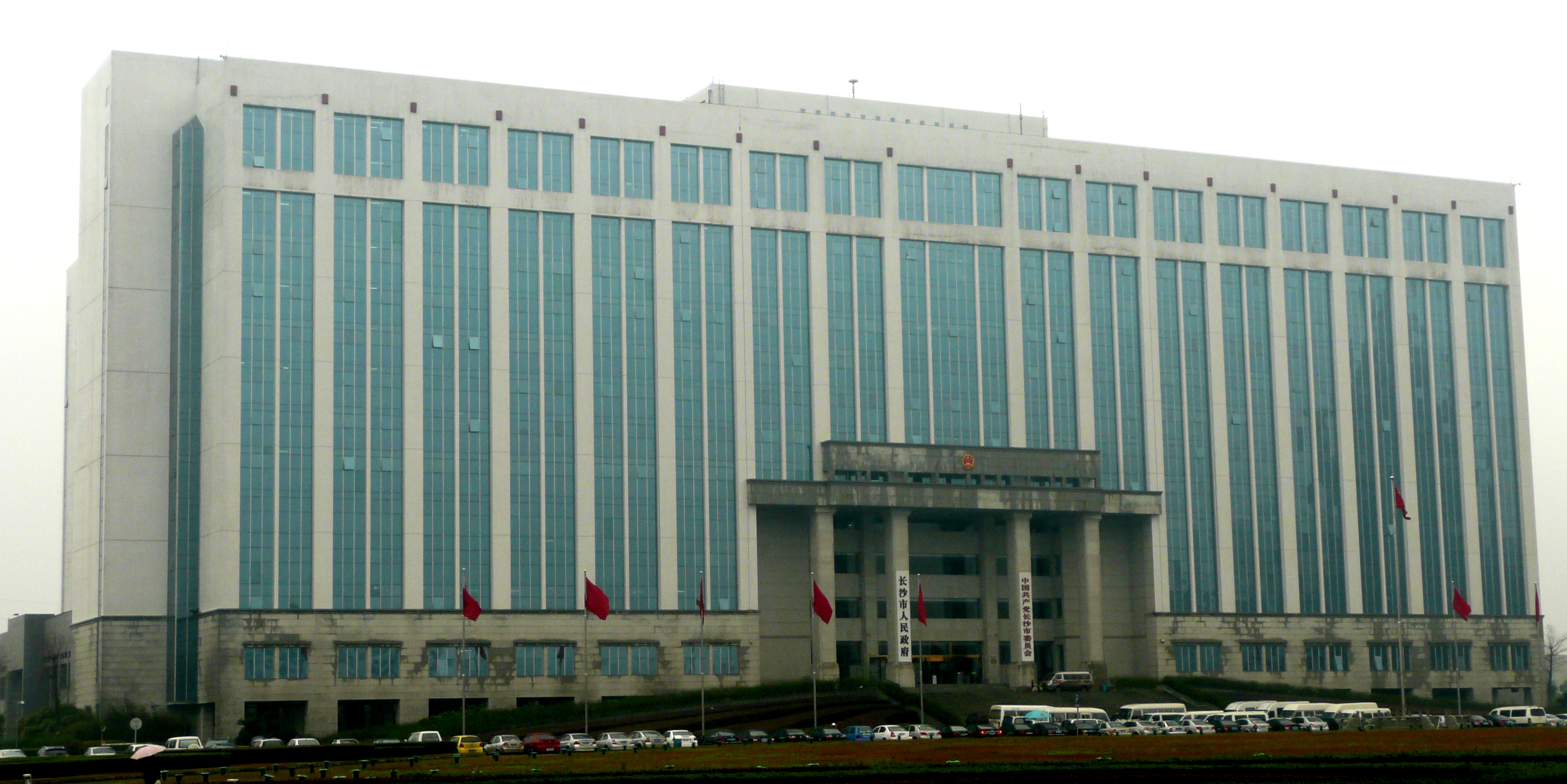 New building of the city administration of Changsha, Hunan